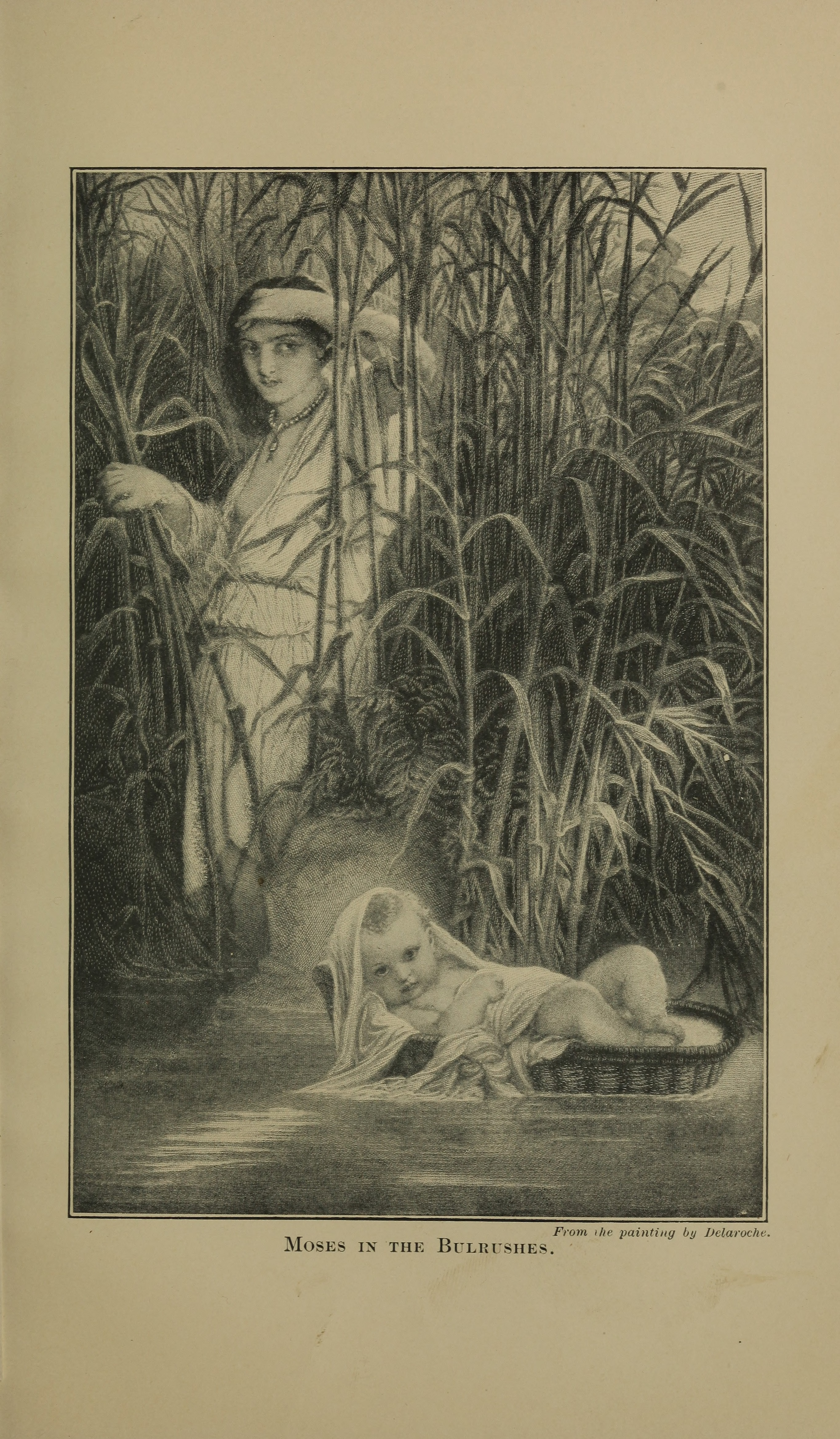 Painting of a Biblical scene